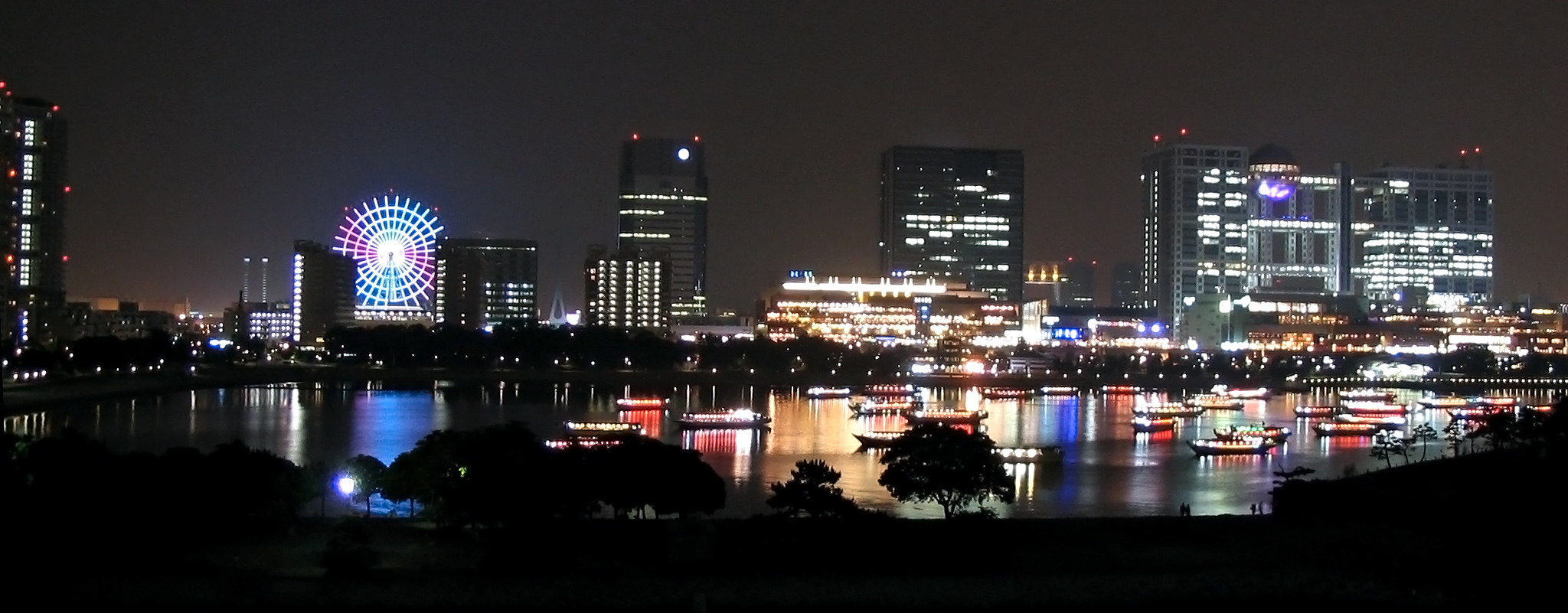 Odaiba, Tokyo. Seen from the Rainbow Bridge.